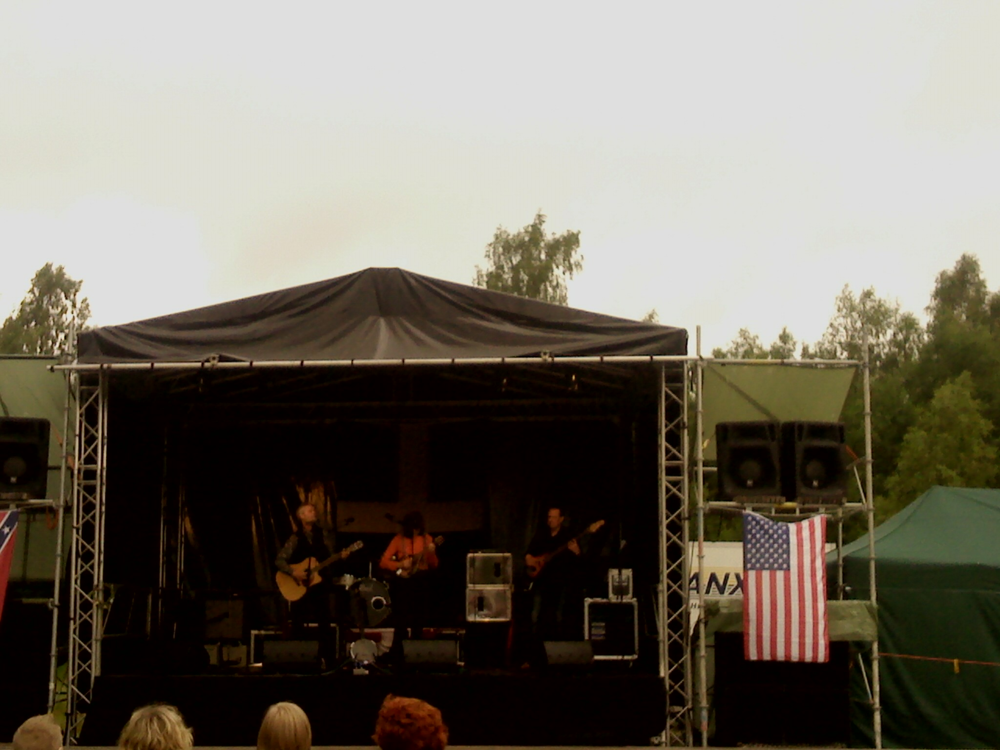 Drottningstorp Midsummer Day Countr in Habo Municipality, Sweden 22 June 2013